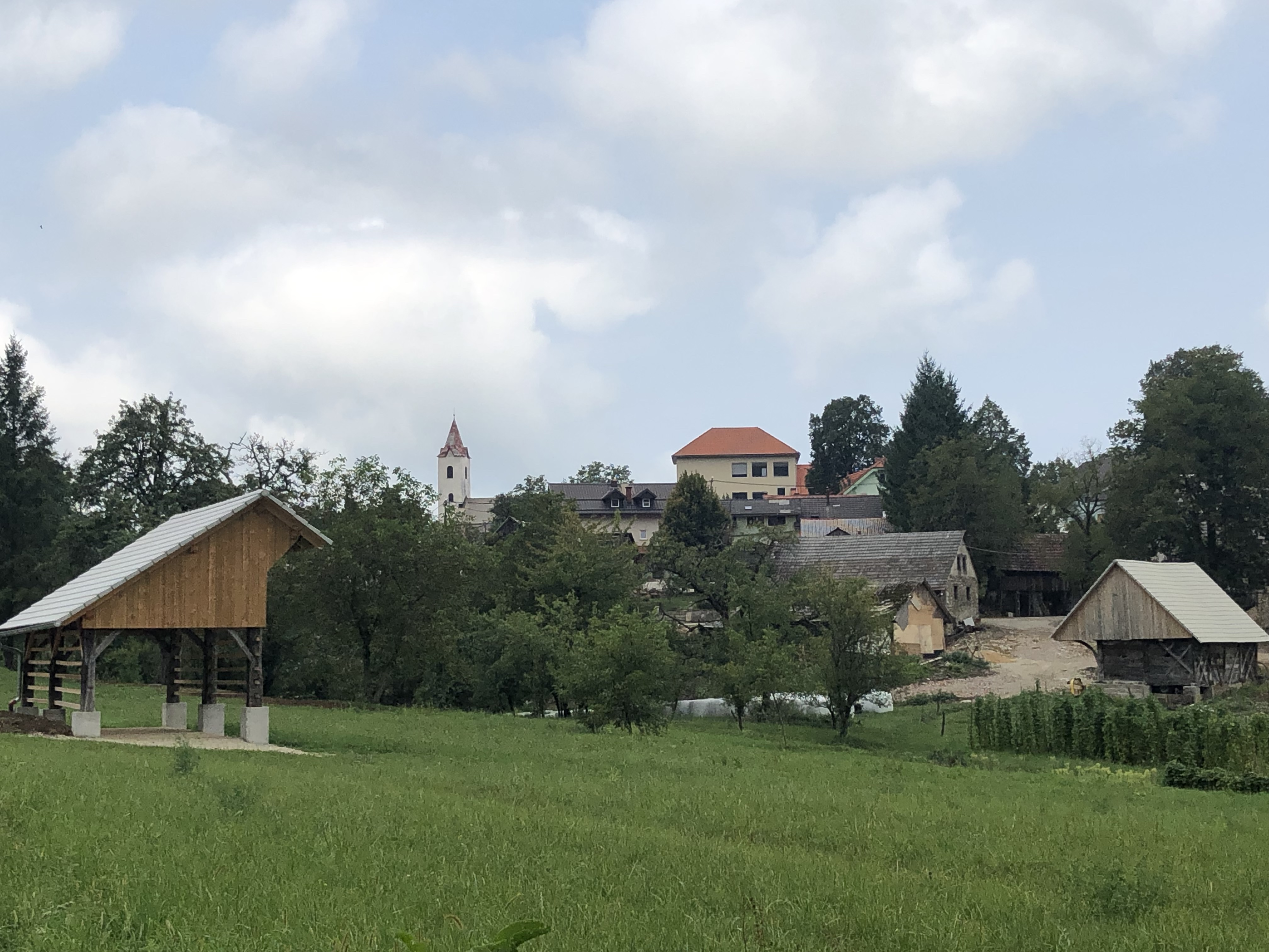 Panorama of Slovenian settlement Dolž